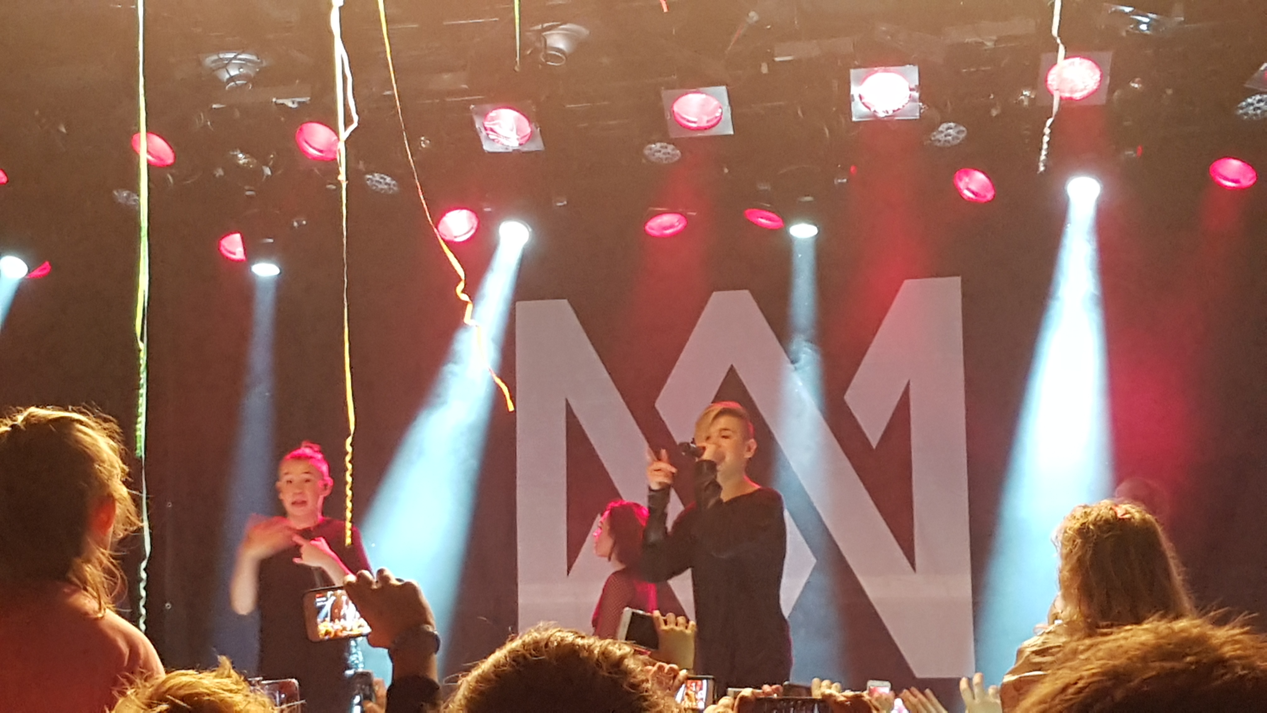 Marcus & Martinus live in Amsterdam during their concert on april 2, 2017.